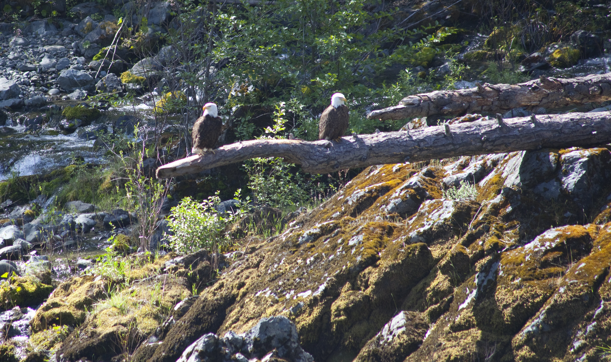 American Hiking Society Instagram Takeover: Wild and Scenic Trinity River in California